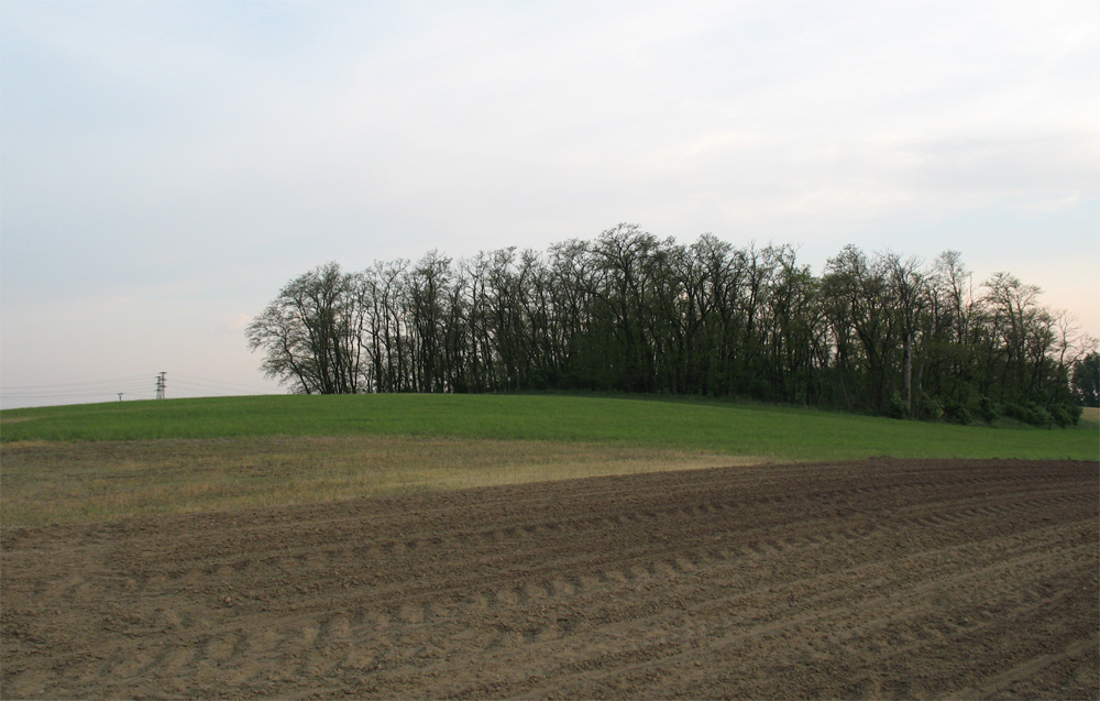 one of kurgans near Šoporňa (Štrkovec)